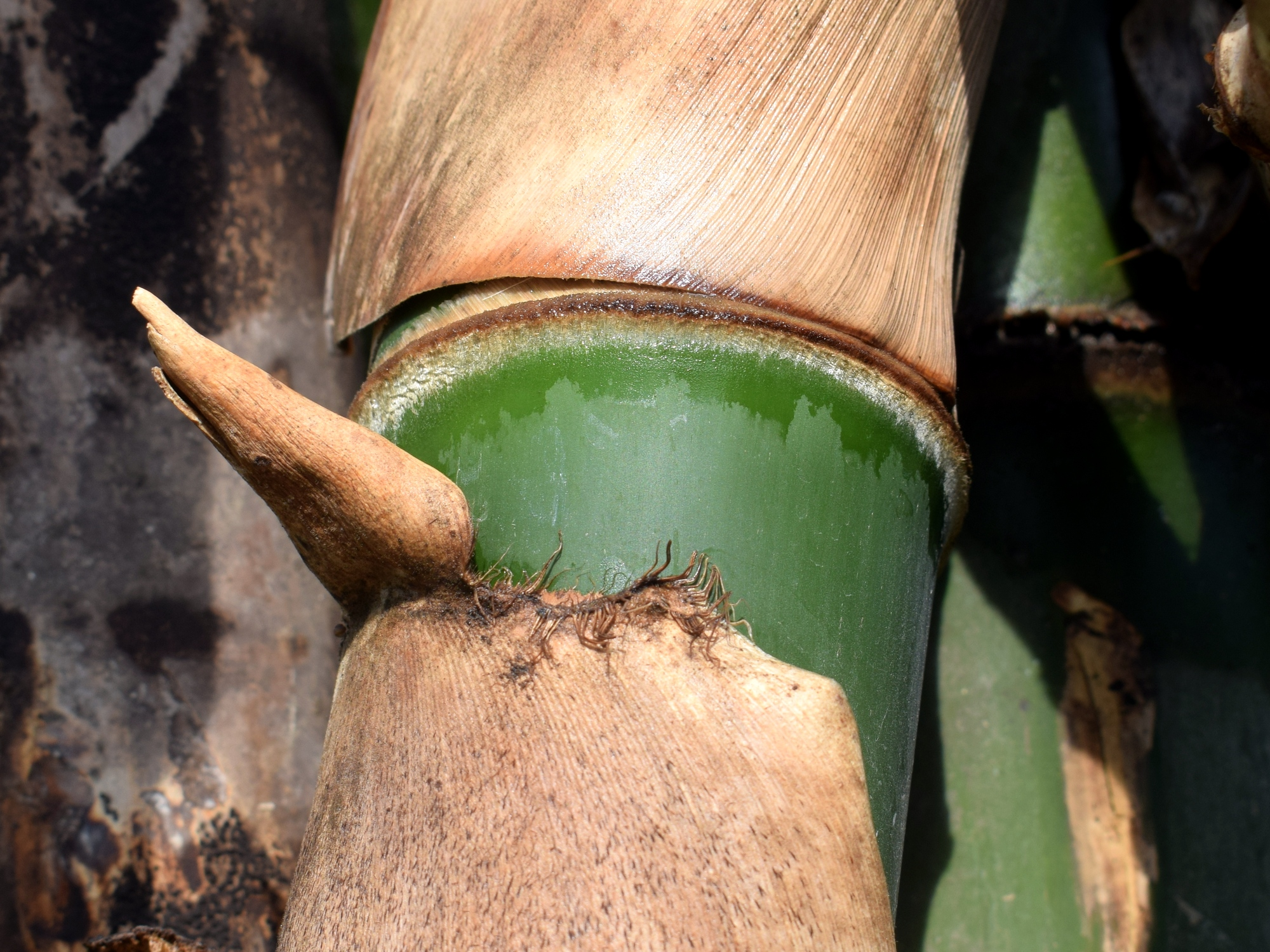 Thorny bamboo, Bambusa blumeana; node and culm sheaths. From Lumajang, East Java, Indonesia.